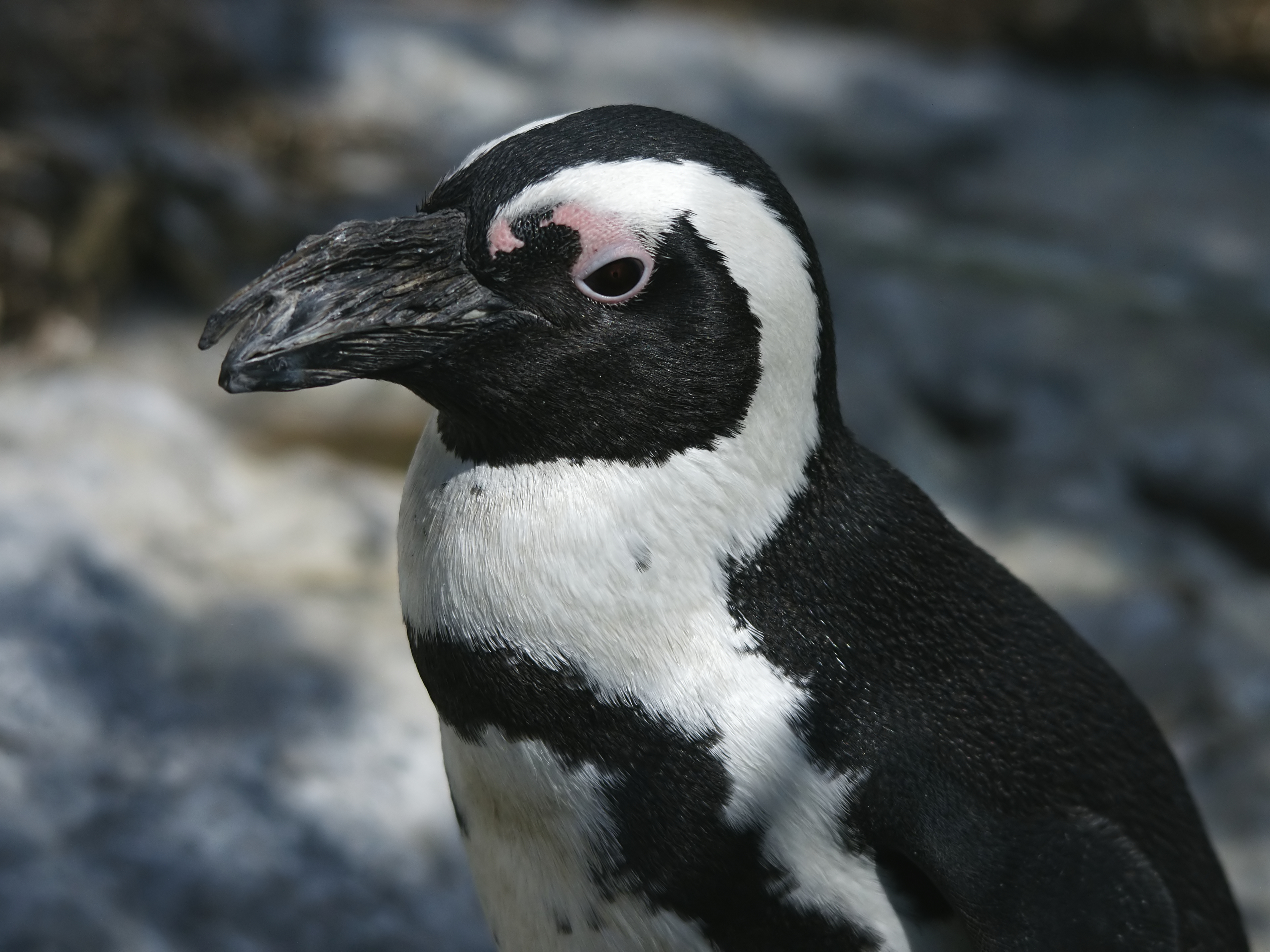 African Penguin at Pairi Daiza, Brugelette, Belgium